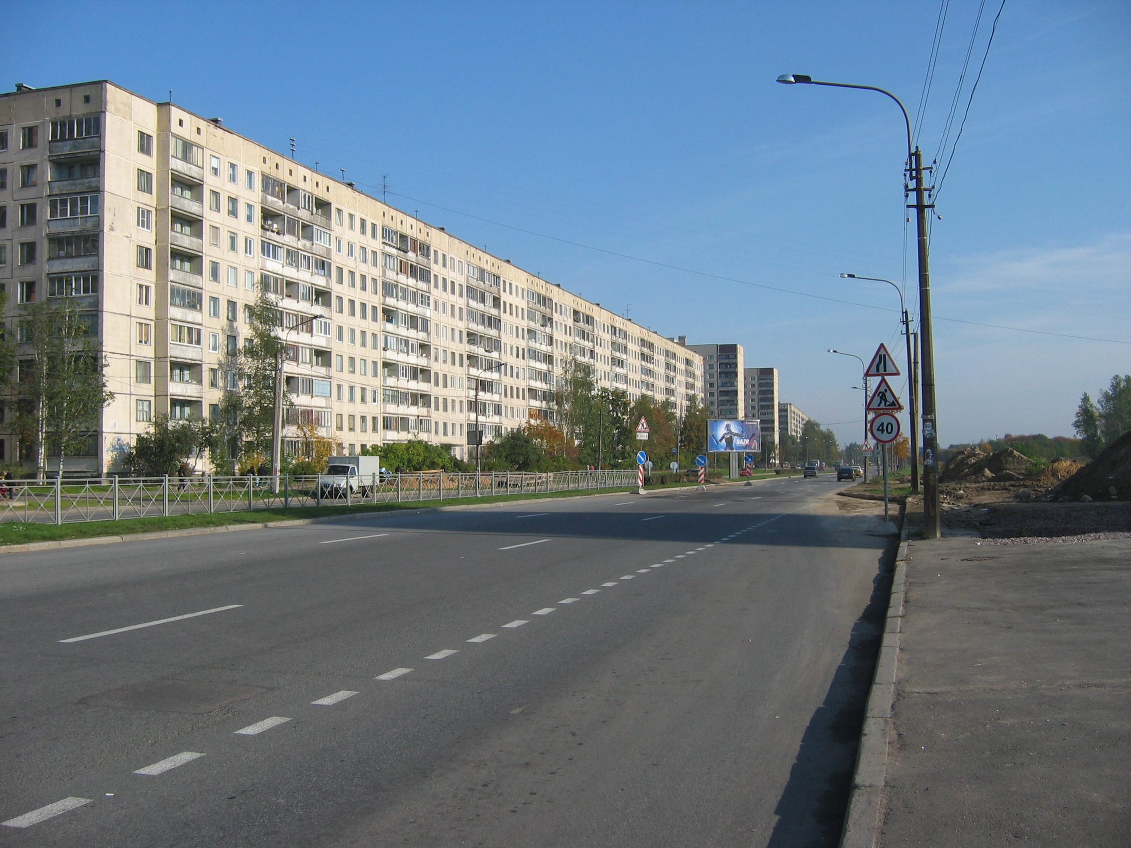 Prospekt Lunacharskogo